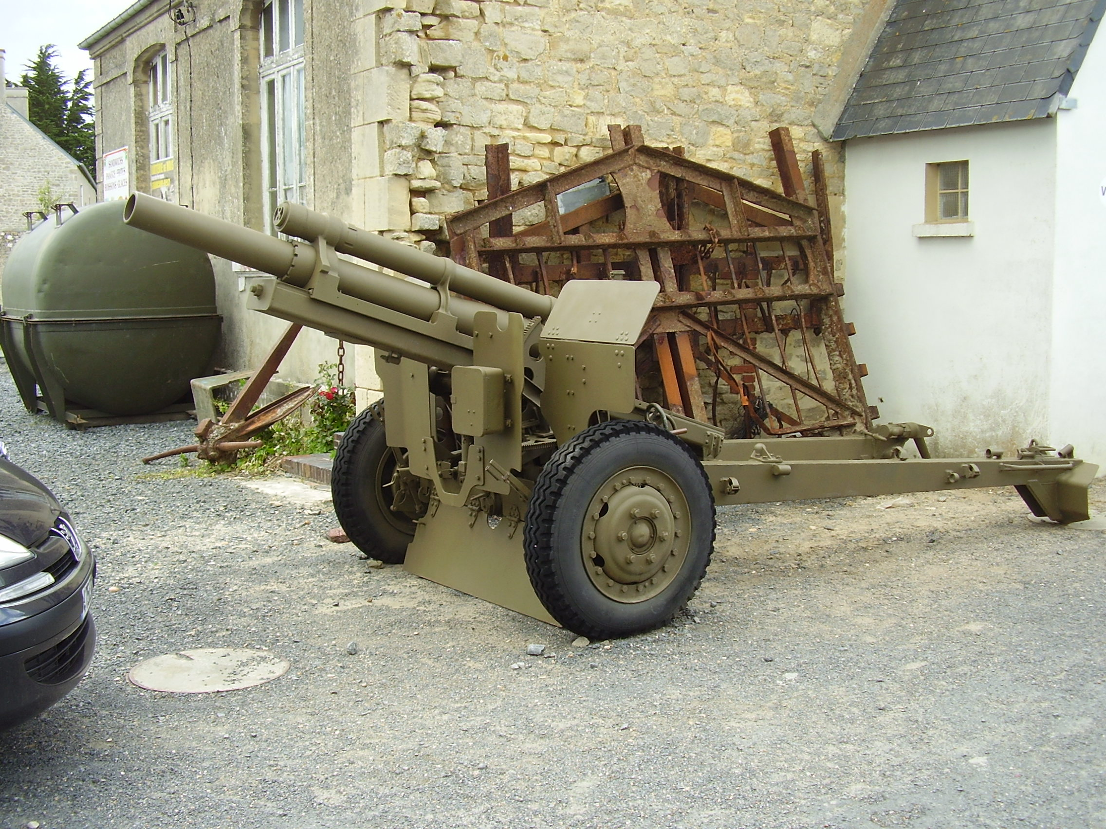 An american M101 105 mm howitzer.